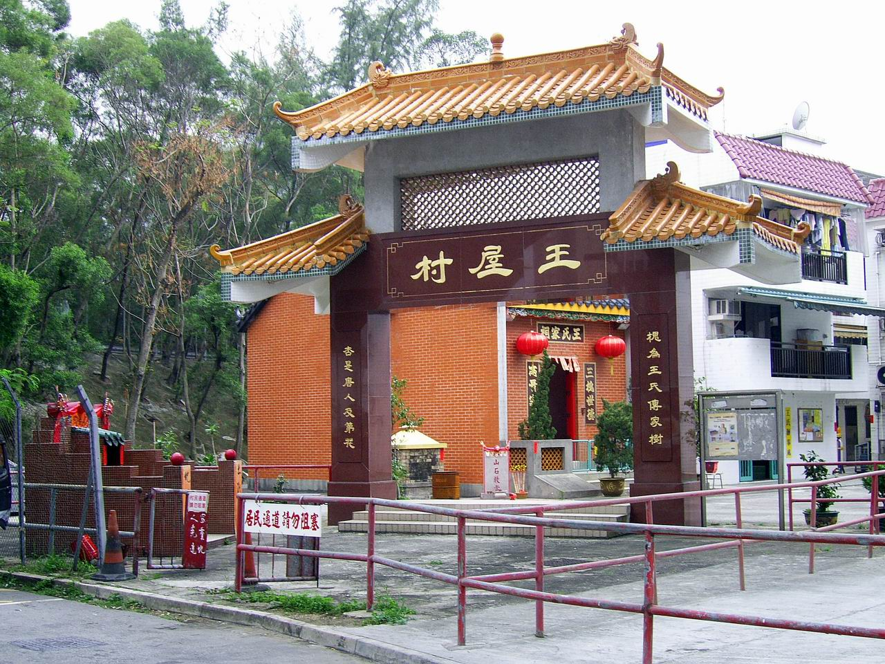 中文（香港）: 王屋村牌樓 Entrance arch of the resited Wong Uk Village, with Earth God shrine (left) and Wong Ancestral Hall (behind)